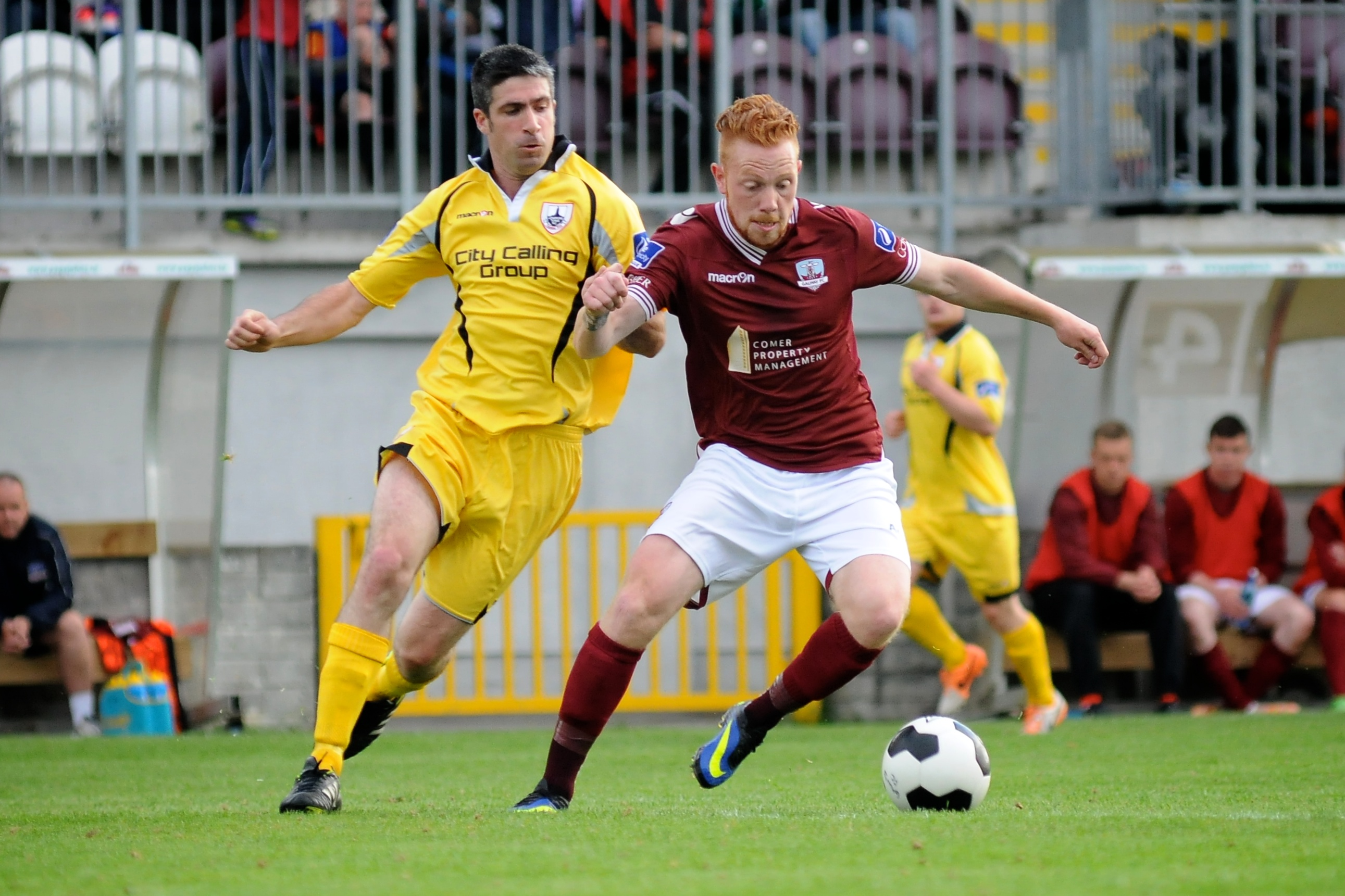 Kevin O'Connor in action for Longford Town against Ryan Connolly of Galway FC in the 2014 League of Ireland First Division at Eamon Deacy Park